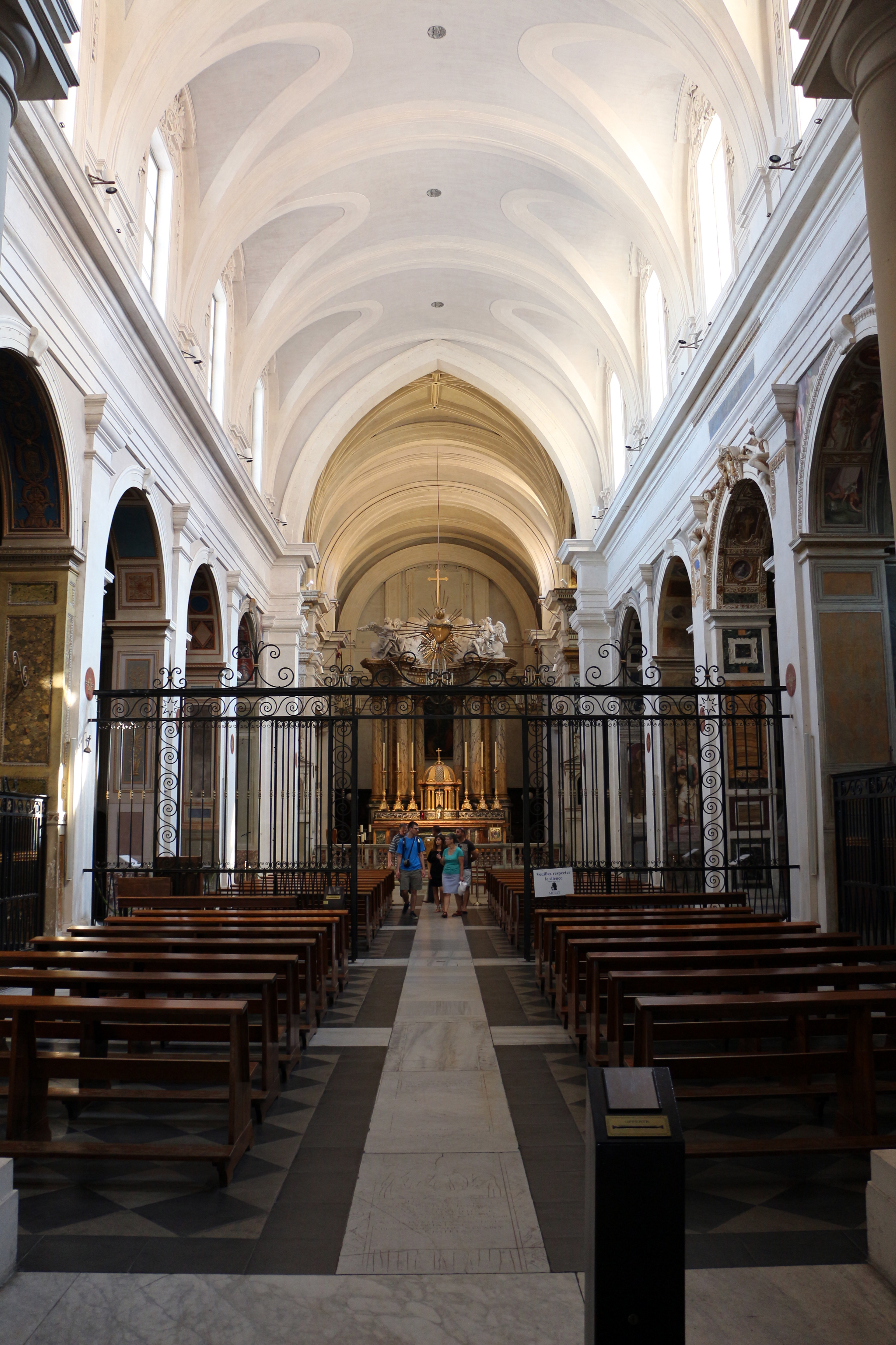 Trinità dei Monti (Rome) - interior